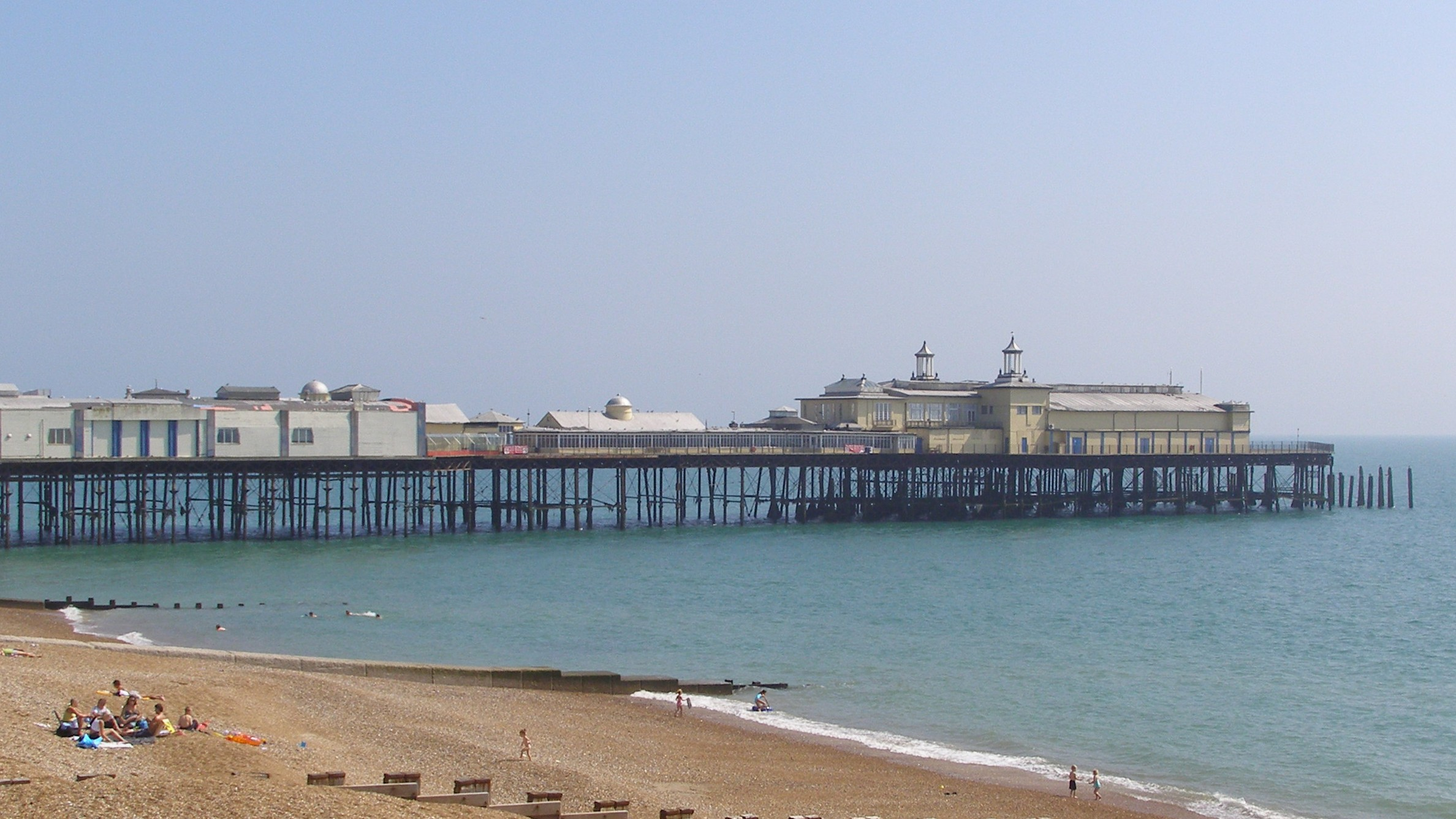 Hastings Pier in Hastings, East Sussex, England